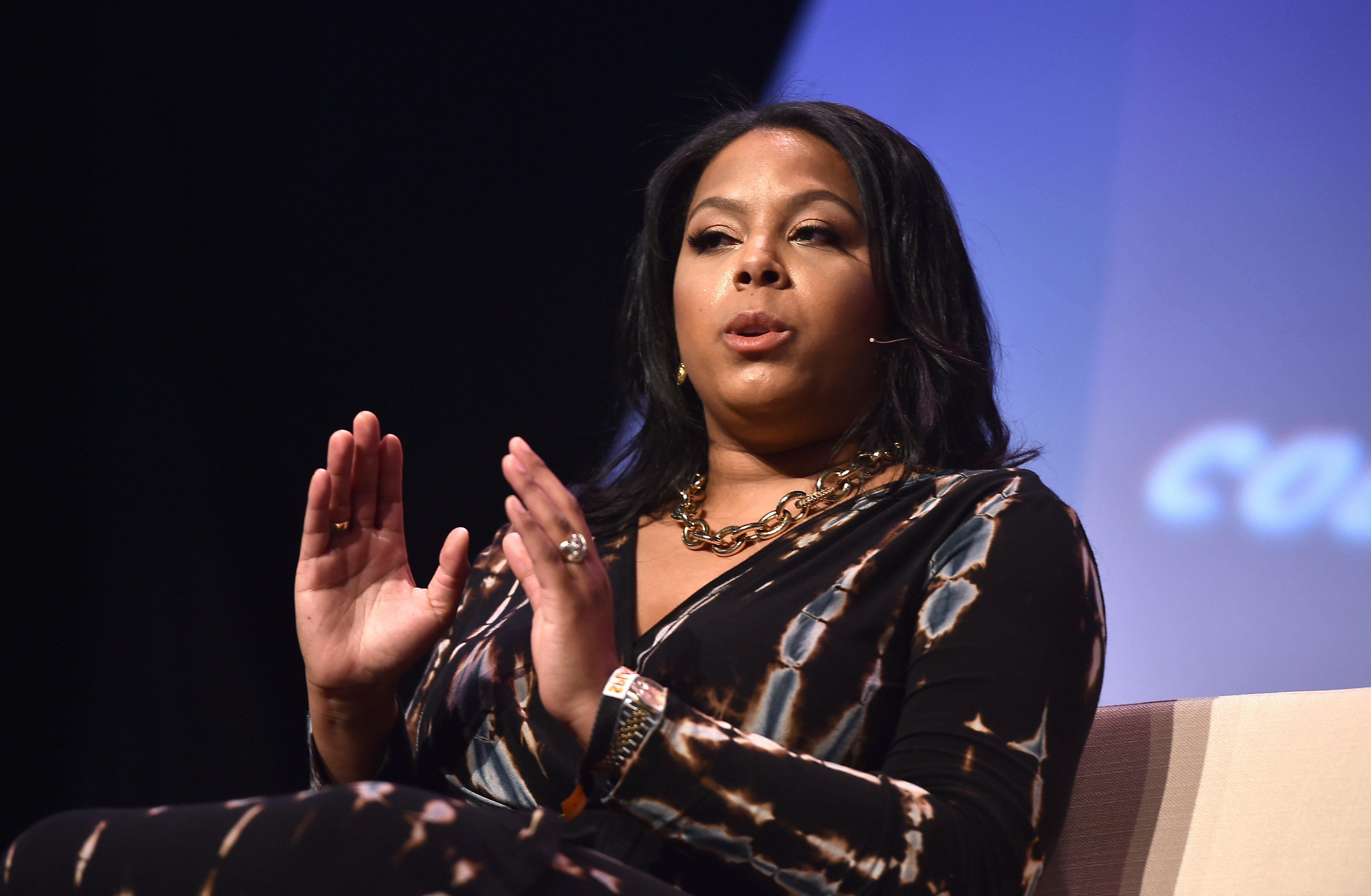 3 May 2018; Dia Simms, President, Combs Enterprises, on Centre Stage during day three of Collision 2018 at Ernest N. Morial Convention Center in New Orleans. Photo by Seb Daly/Collision via Sportsfile